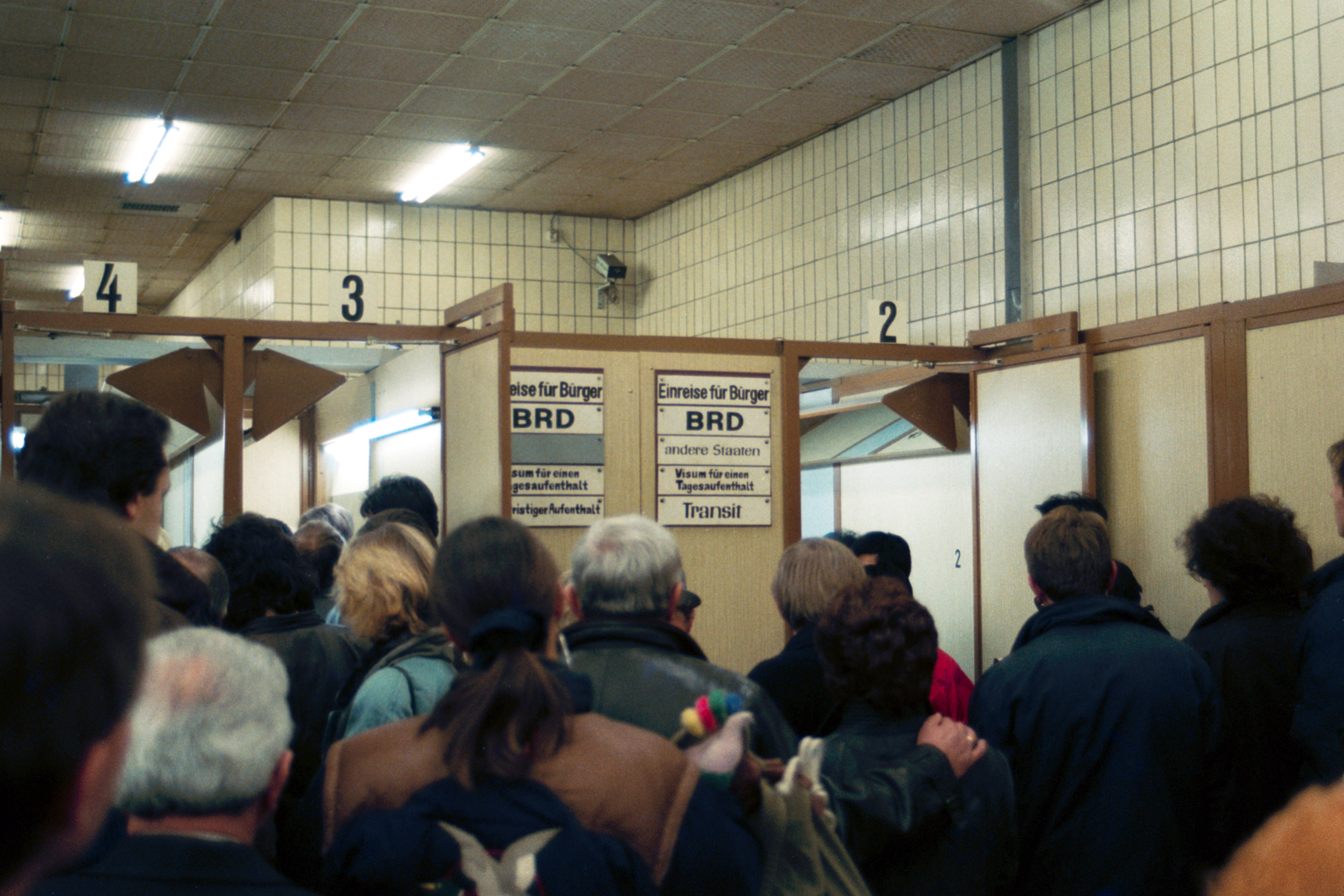 GDR border crossing Bahnhof Friedrichstrasse